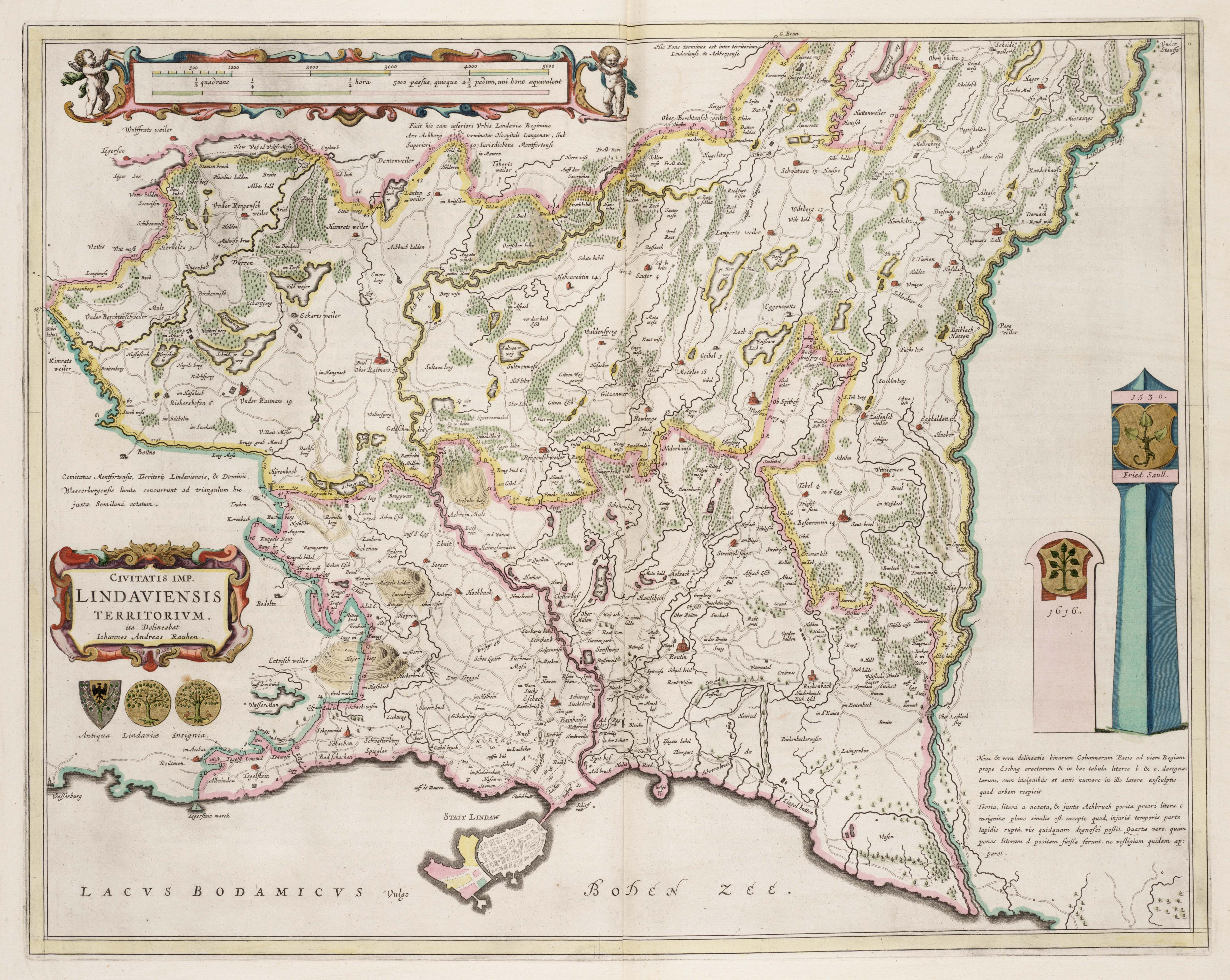 Map published in 1665 by Amsterdam geographer and map publisher Johannes Blaeu showing the territory of the Free Imperial City of Lindau ("Civitatis Imp. Lindaviensis Territorivm") on the shores of Lake Constance. The town of Lindau proper is located on the small offhore island at the bottom of the map. Politically, Lindau also ruled over a territory on the mainland. In the area bordered in pink, Lindau exercised full sovereignty, while in the area to the north, bordered in yellow, it shared sovereignty with the neighbouring counts of Monfort-Tettnang who exercised high jurisdiction (Hochgerichtsbarkeit), while Lindau exercised low jurisdiction (Niedergericht). A complementary map showing the northernmost tip of the territory not shown in the above map was also issued (see below). (Information taken from Werner Dobras, "Lindau, Reichsstadt" in: Historisches Lexikon Bayerns (04.10.2010).